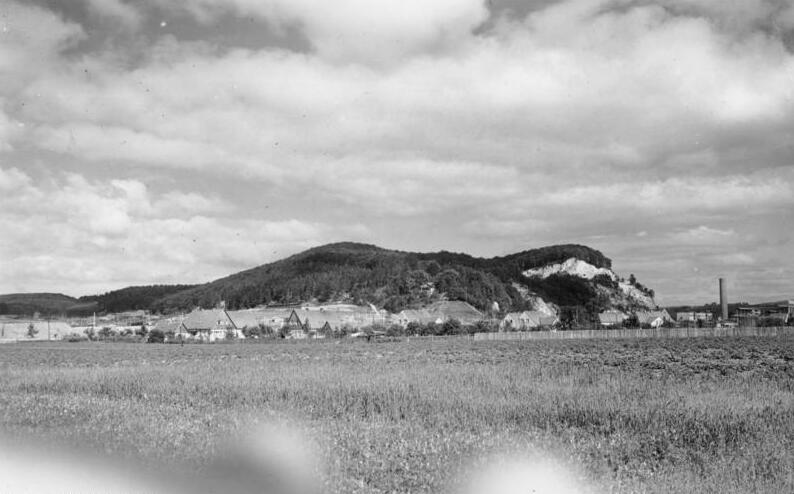 G8501 A 201 Information added by Wikimedia users.